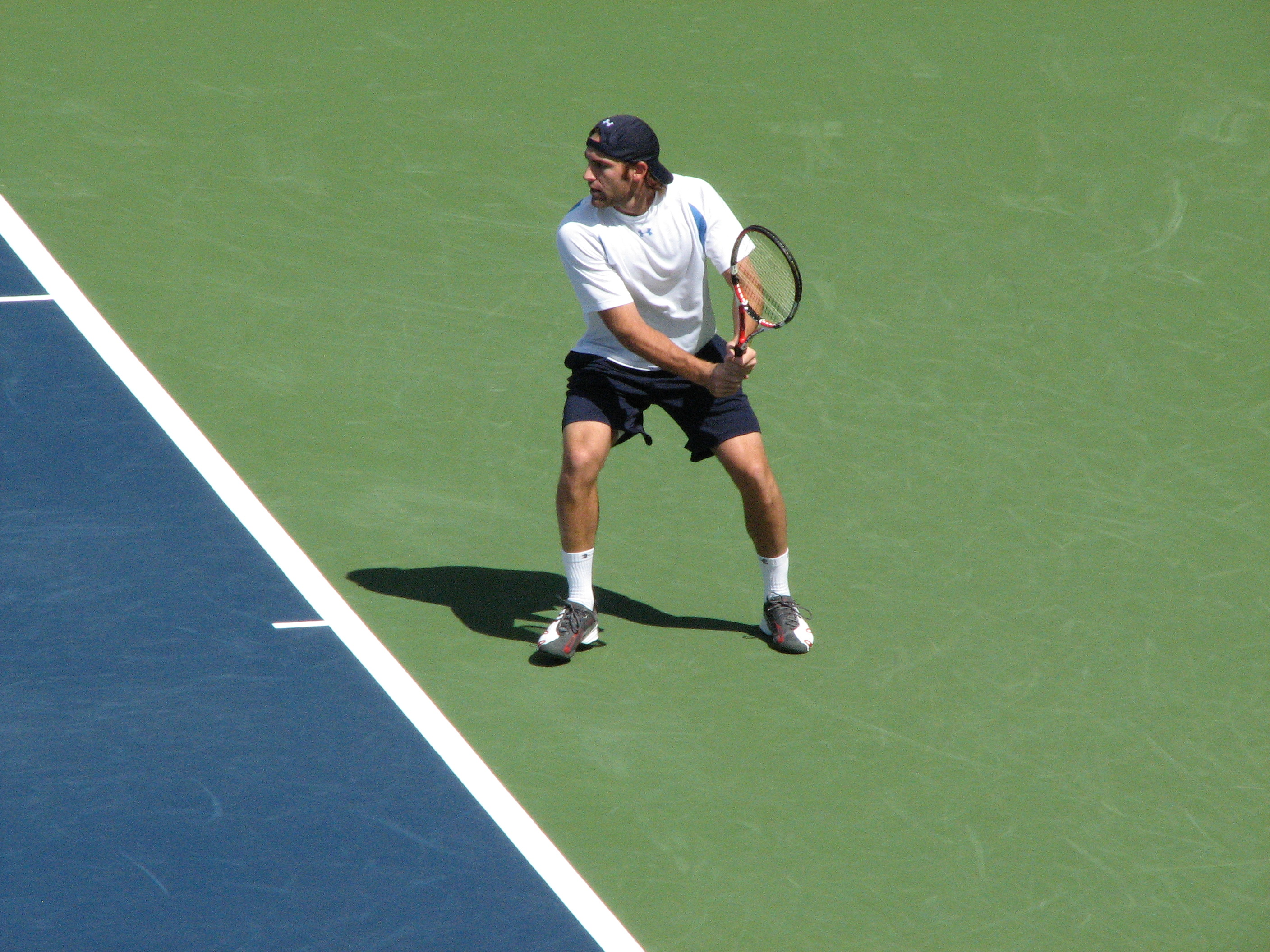 Robby Ginepri against John Isner during the 2009 Indianapolis Tennis Championships semifinals